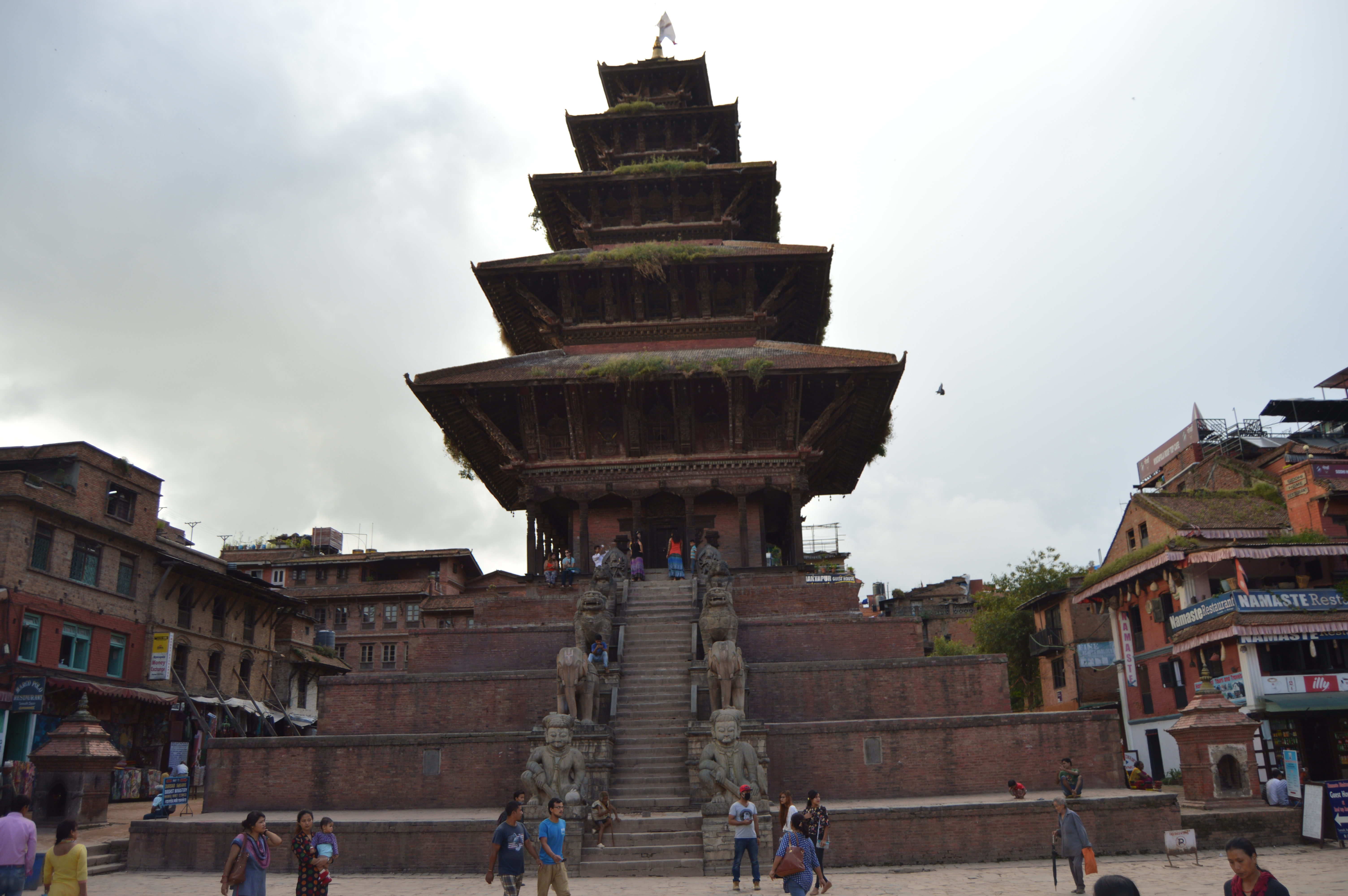 Nyatpol (Natapol Dutra)